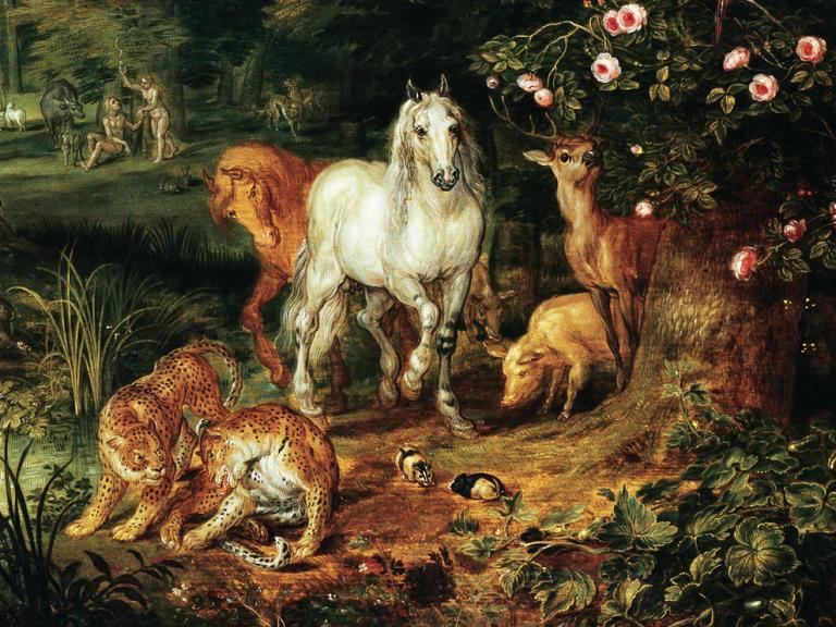 The Temptation in the Garden of Eden by Jan Brueghel the elder (part, cropped)